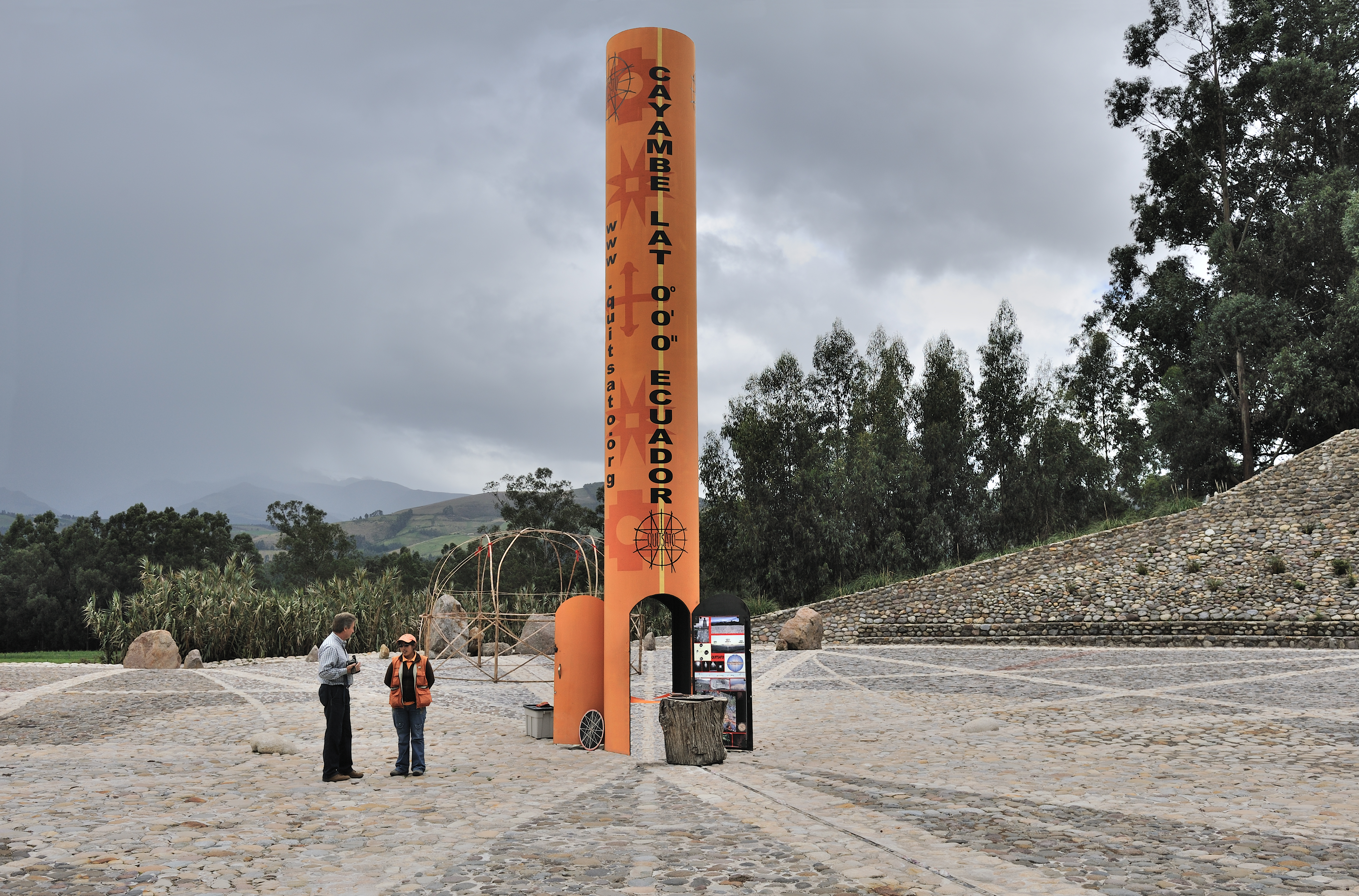 Ecuador: The Quitsato Sundial is exactly positioned on the equator line near the town of Cayambe. Altitude: 2747 m. The equator is the narrow dark line that runs through the cylinder. The northern hemisphere is at the left side, the southern one at the right side of the line. The site is managed by a non governmental organization of volunteers.